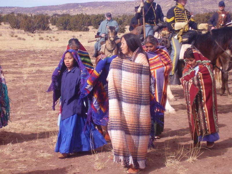 Wearing period blankets and footwear.